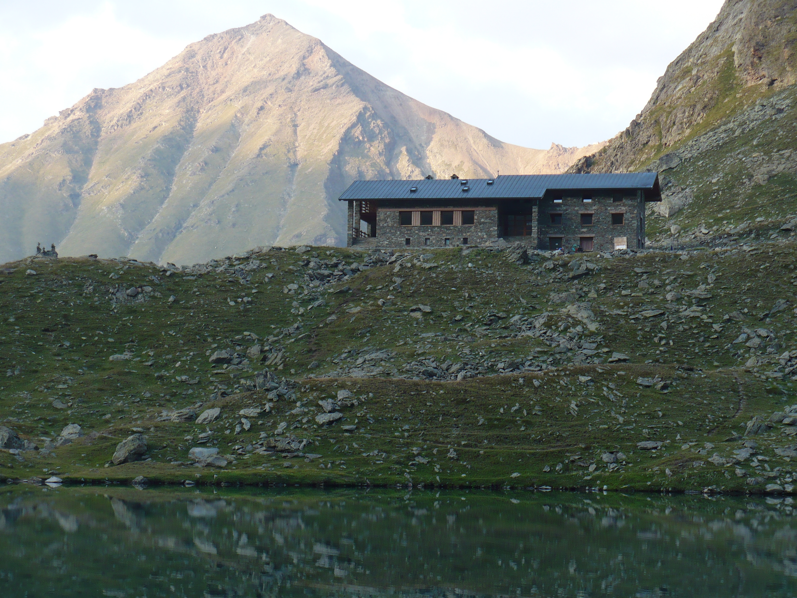 Rifugio Arbolle - Aosta Valley - Italy